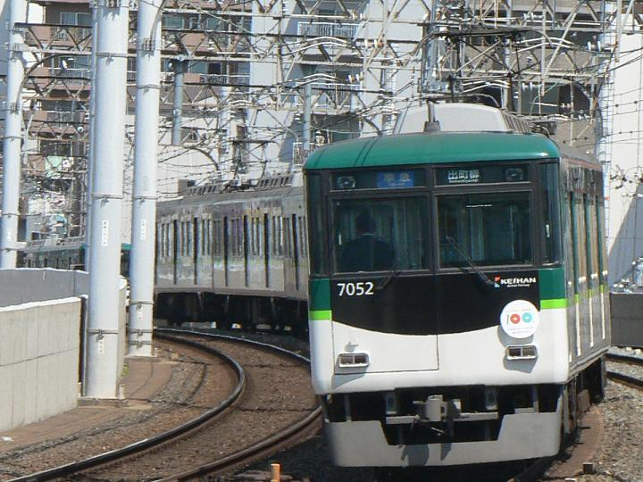 Keihan 7000 series at Nishi Sanso station